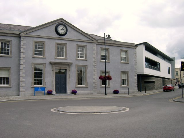 Trim courthouse from the front, Ireland